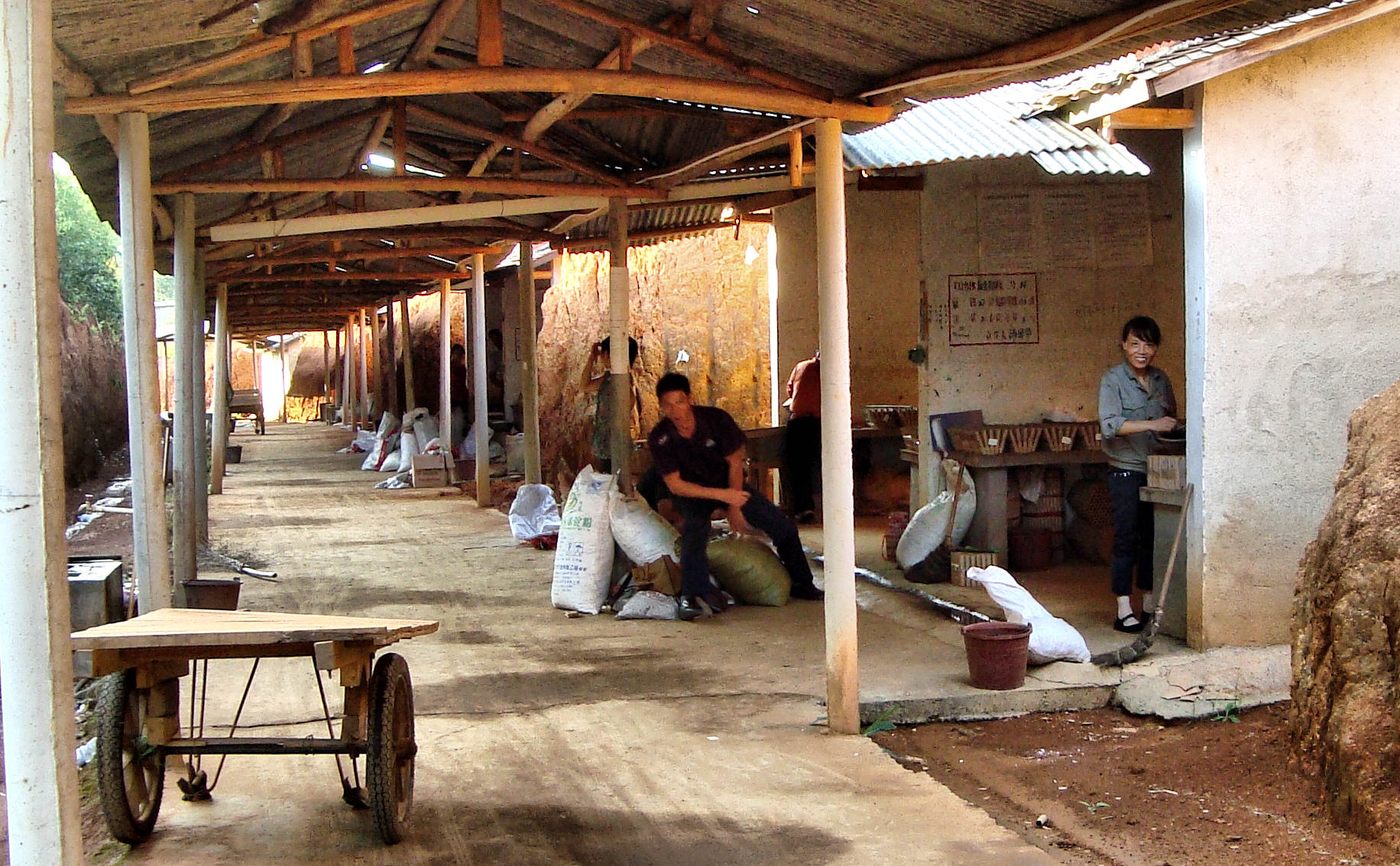 Liuyang-Firework production-China